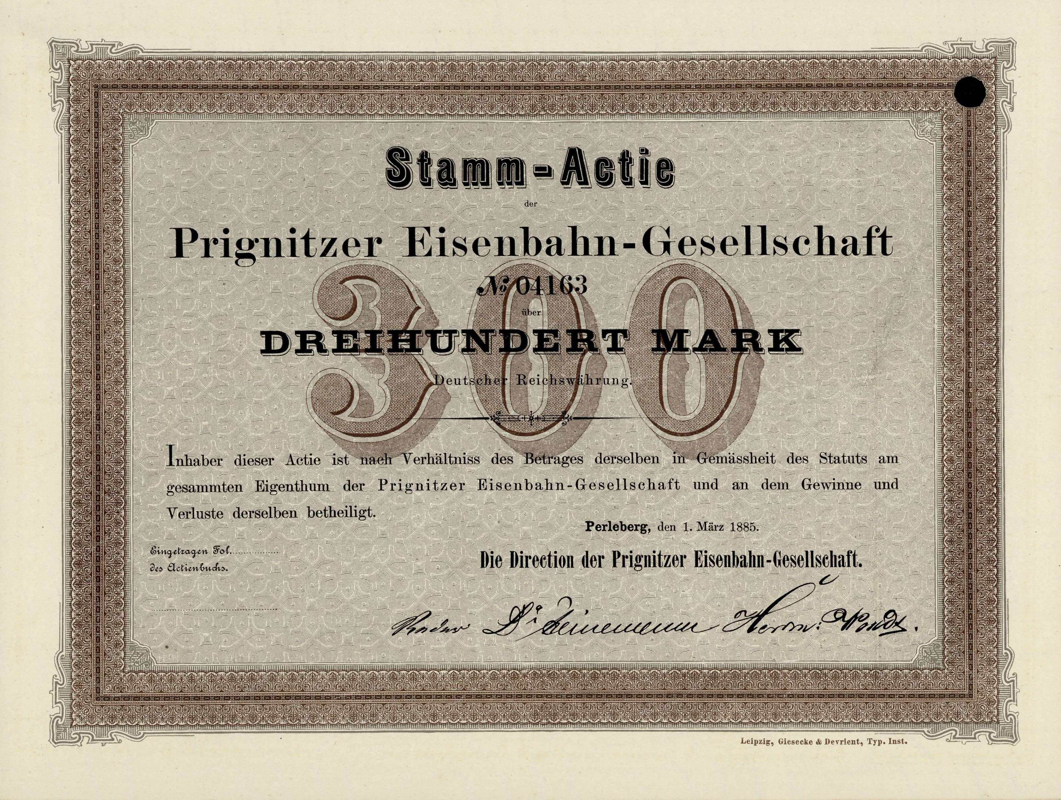 Share of the Prignitzer Eisenbahn-Gesellschaft, issued 1. March 1885